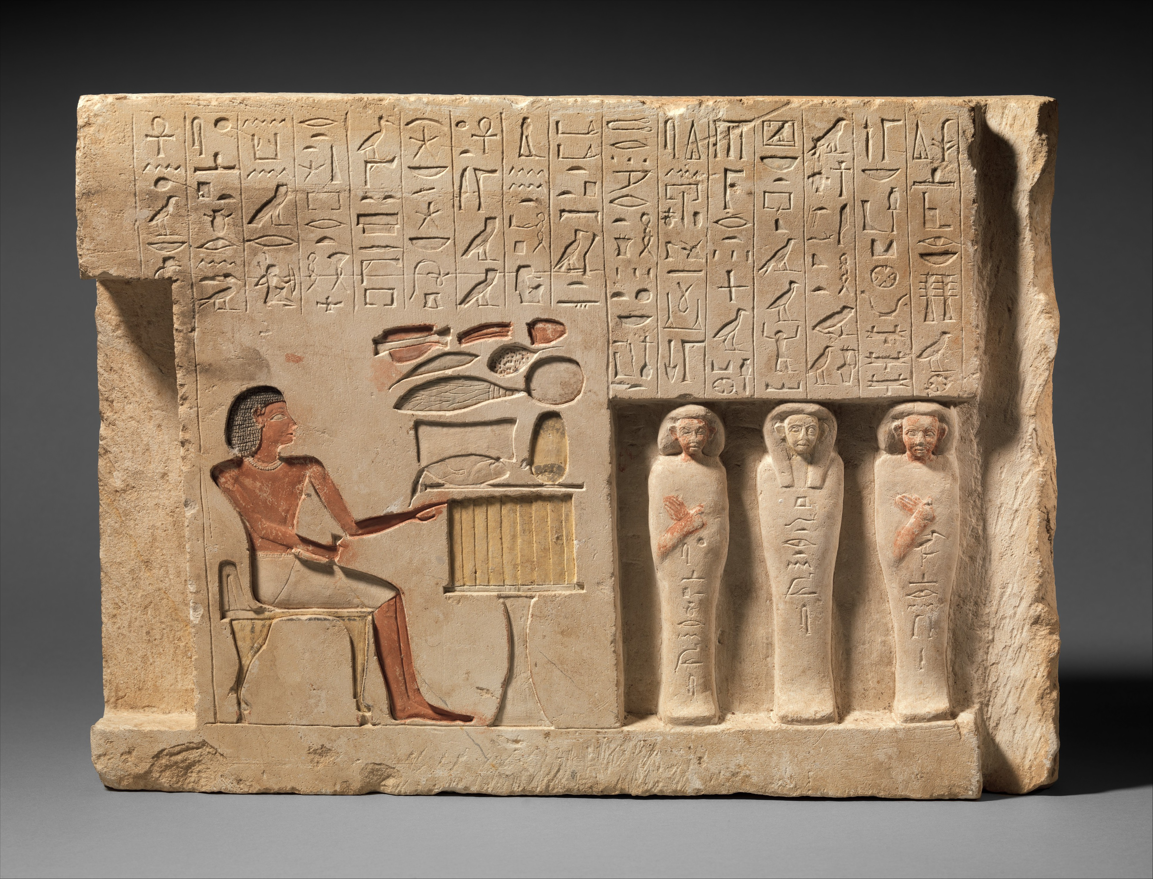 Relief, funerary chapel, Sehetepibre